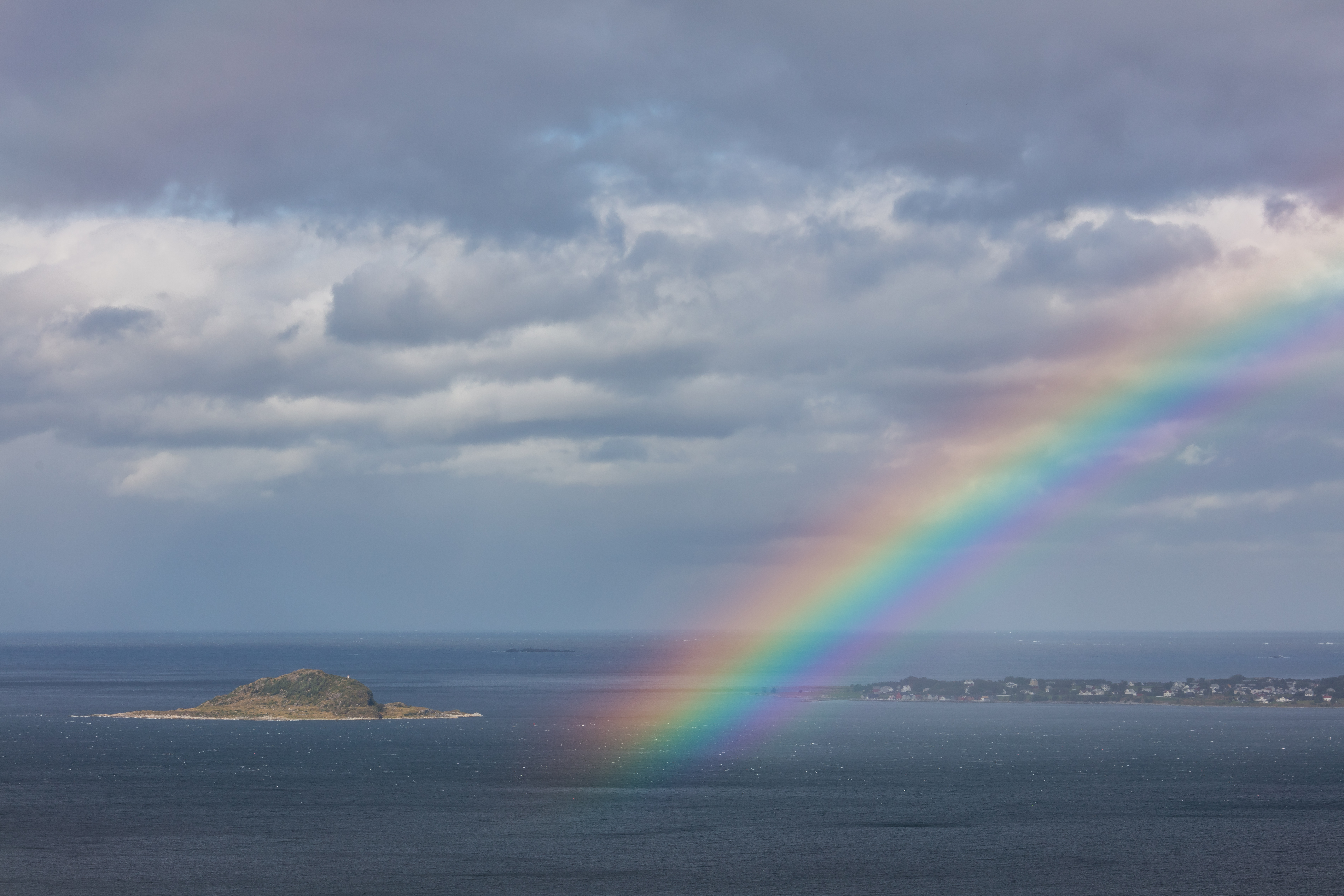 Rainbow over Havsteinen, Giske, Norway